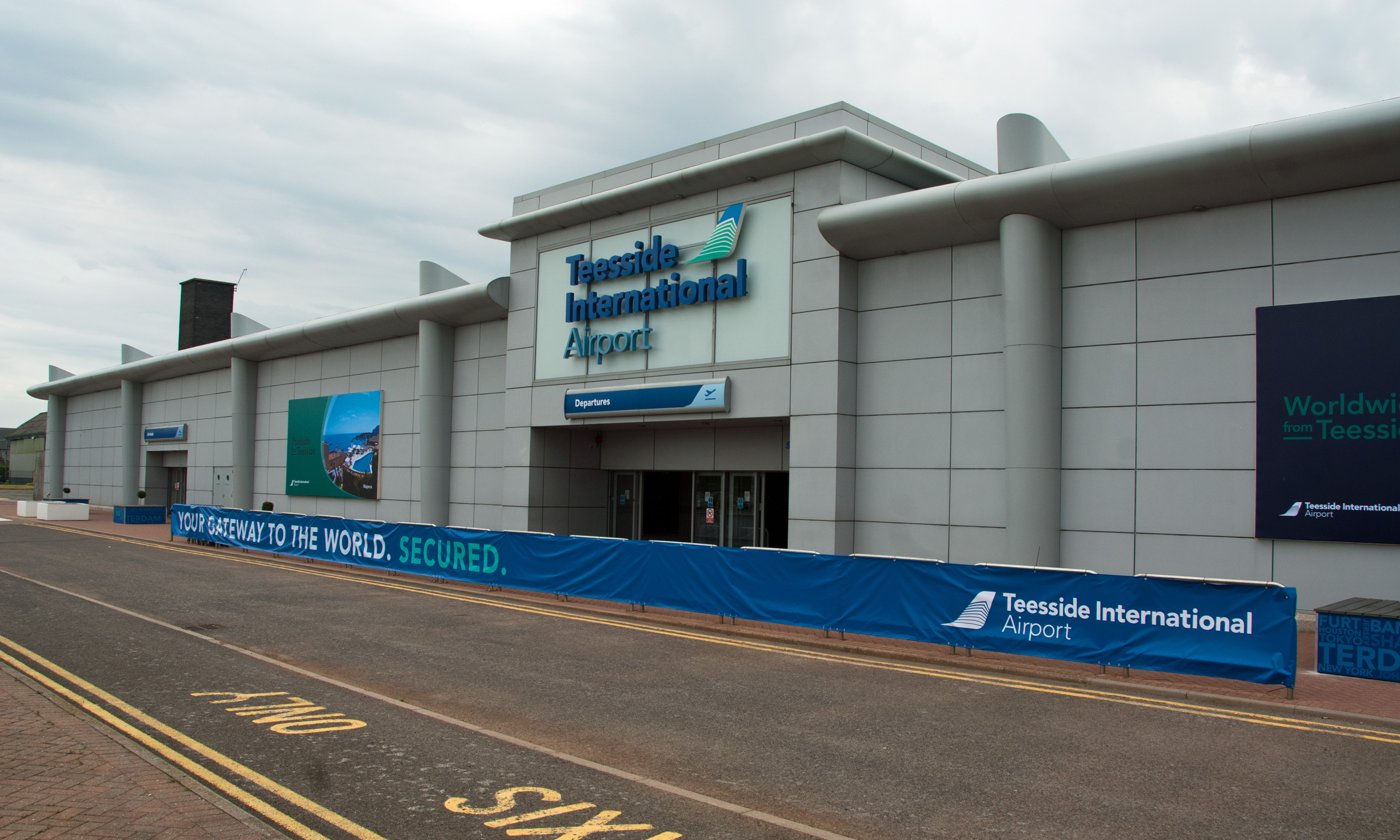 Teesside International Airport after its July 2019 re-branding